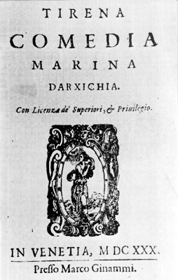 Cover of the third edition of Marin Držić's Pjesni, titled Tirena, in Venice 1630. That edition contains Držić's Petrarchist poetry and versified plays.